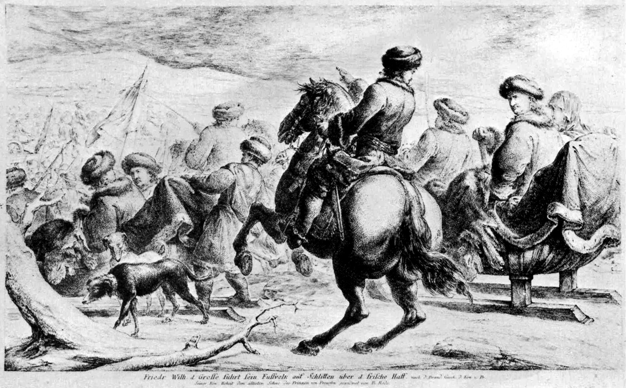 Frederick William the Great Leading His Infantry on Sleds across the Curonian Lagoon, engraving by Bernhard Rode, ca. 1783. background: Great Sleigh Drive